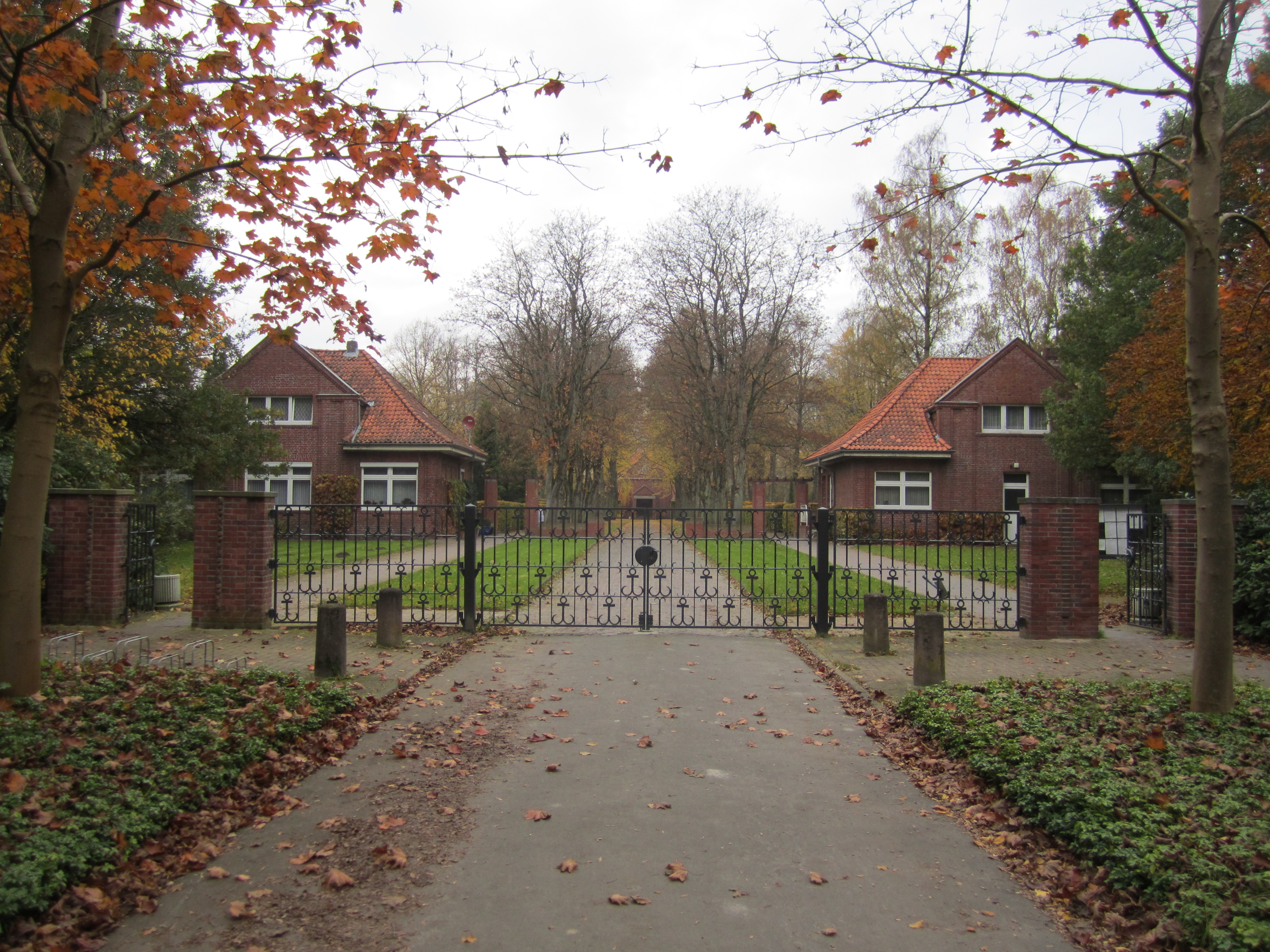 Main entrance of Cemetry of honour in Wilhelmshaven